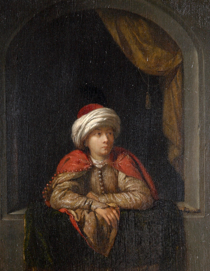 Young Armenian leaning at a Window, by Caspar Netscher. (Heidelberg 1639 – The Hague 1684)